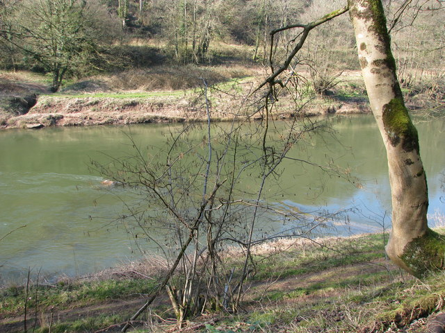 The River Wye -Victuallers thinks this is looking at th Graig Wood near Penallt (there is another Graig Wood near Newport)